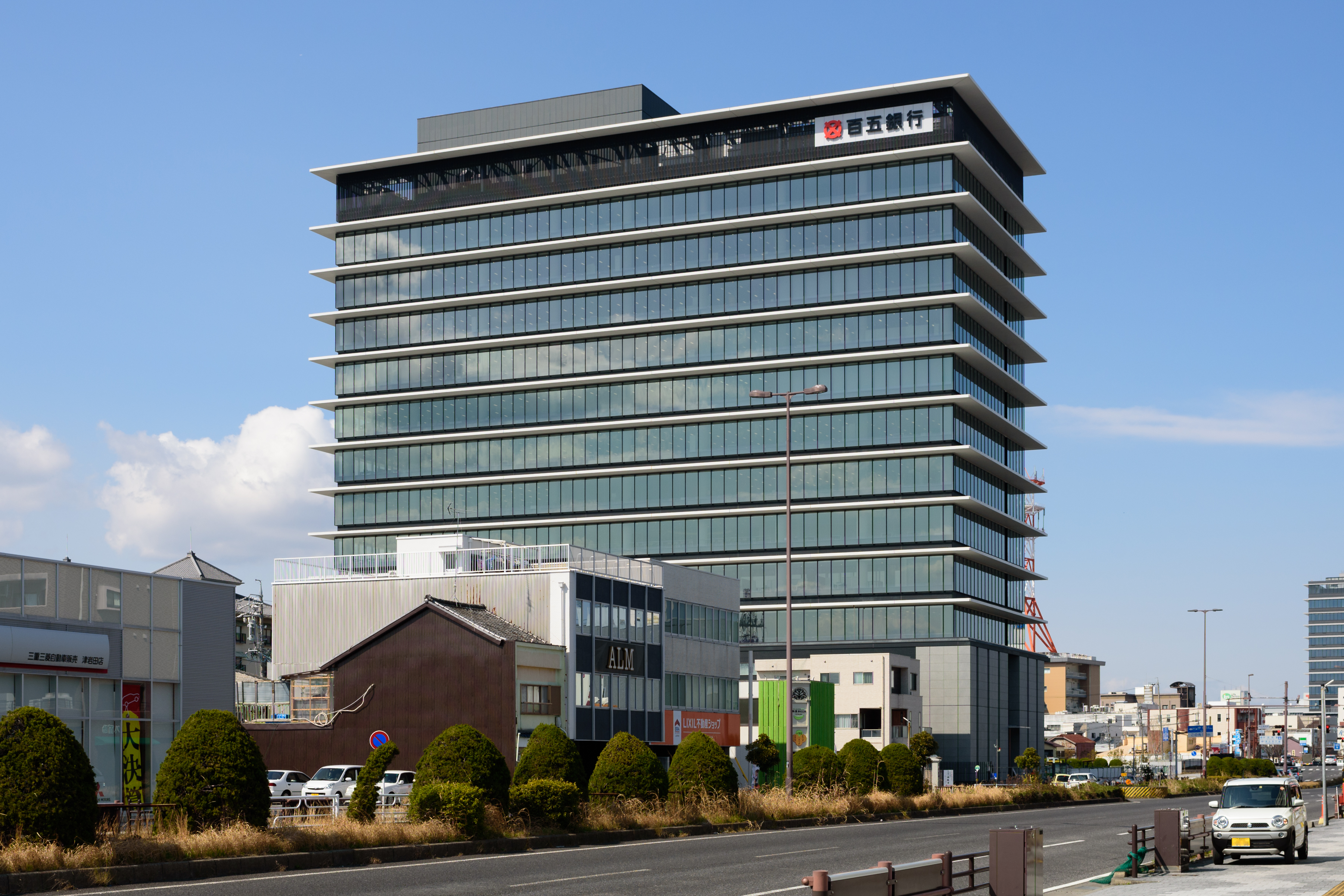 Head Office of HYAKUGO BANK